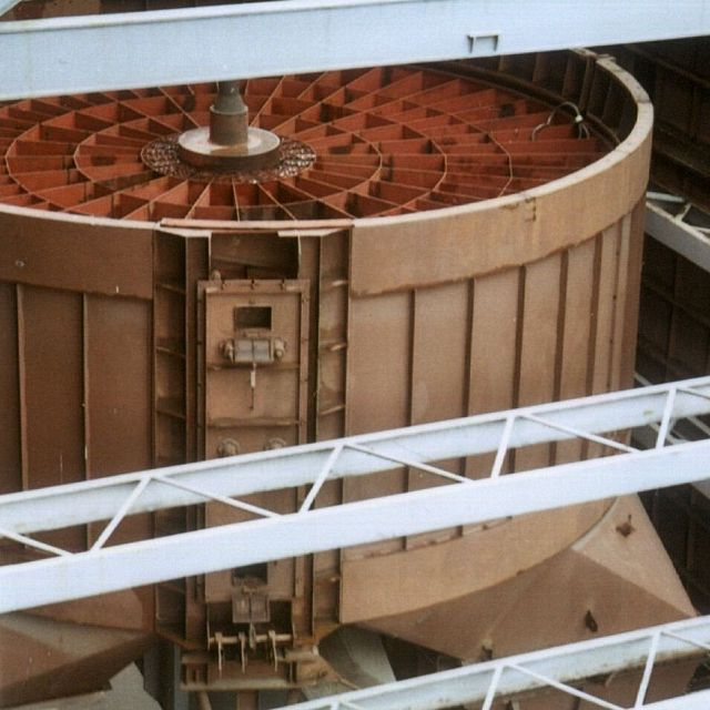 Ljungström air preheater under construction.